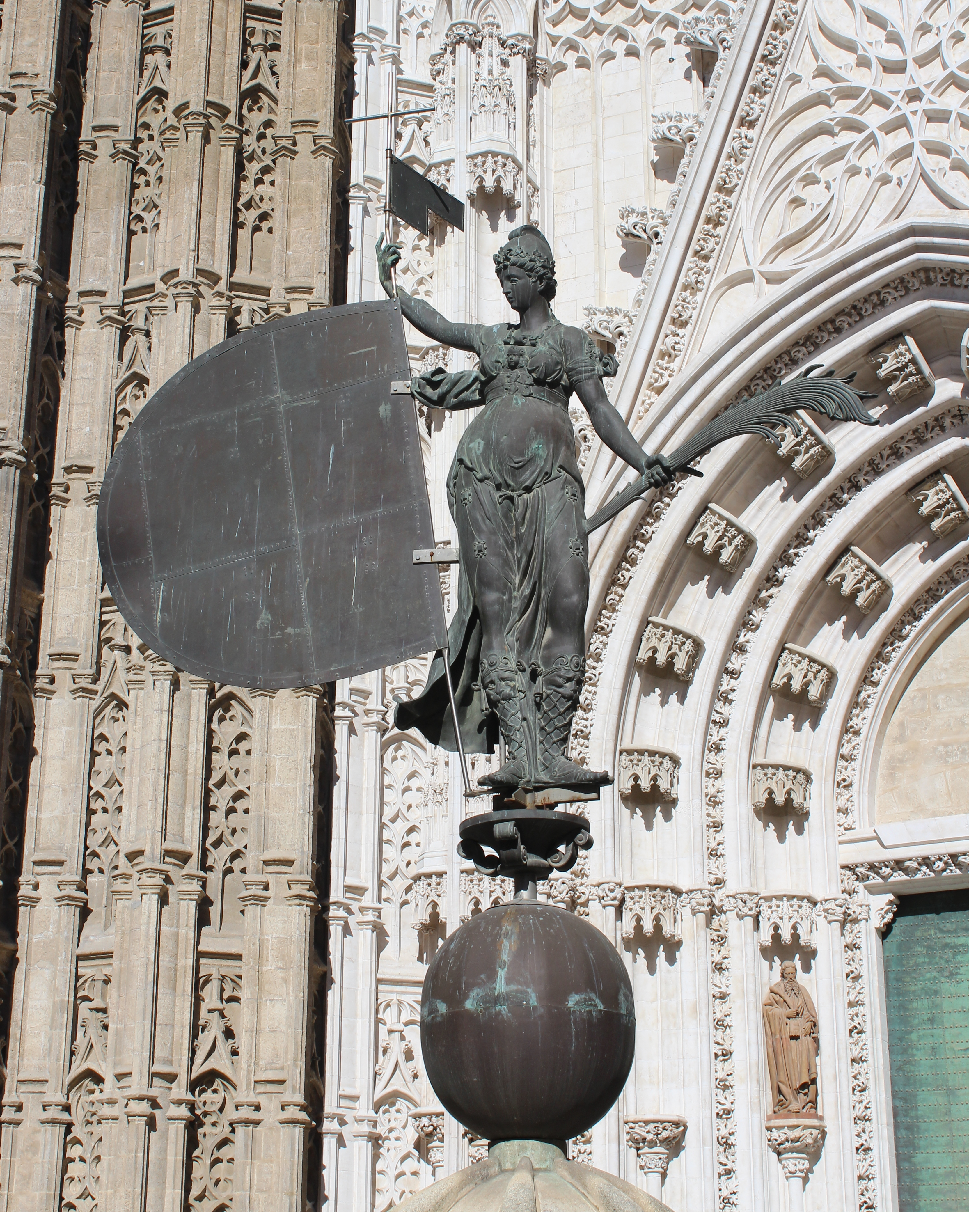 Bronze replica of the Giralda weathervane (known as Victrix Fidei Colossvm or Geraldilo) on Seville Cathederal (by José Antonio Márquez (1981) located close to the Puerta de San Cristóbal o del Príncipe. This replica was mounted on the cathedral spire between 1999 and 2005 while the original by Bartolomé Morel (1568) was being restored.